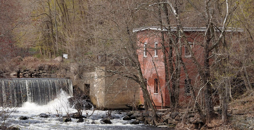 Connecticut - New London County - Norwich 2011 Apr 22 Yantic St upriver of the mill, view W edit: crop, resize According to the map supplied with NRHP application this building is not part of the Yantic Falls Historic District